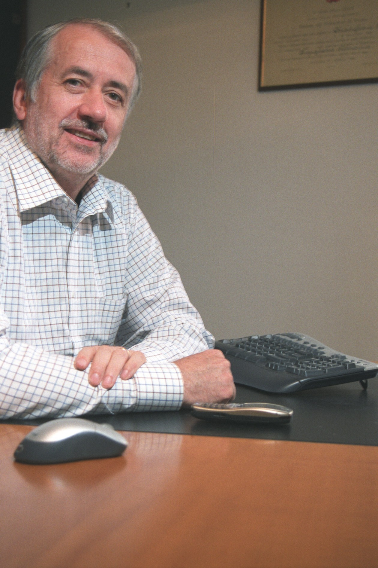 Leonardo Chiariglione has been at the forefront of a number of initiatives that have helped shape media technology and business as we know them today. He founded the MPEG and chairs and the Digital Media Project of which he is the president. This group, with a membership of over 300 experts, representing 20 countries and various industries having a stake in digital audio and video, produced the MPEG-1, MPEG-2 and mp3 standards that have facilitated the digital audio-visual revolution.